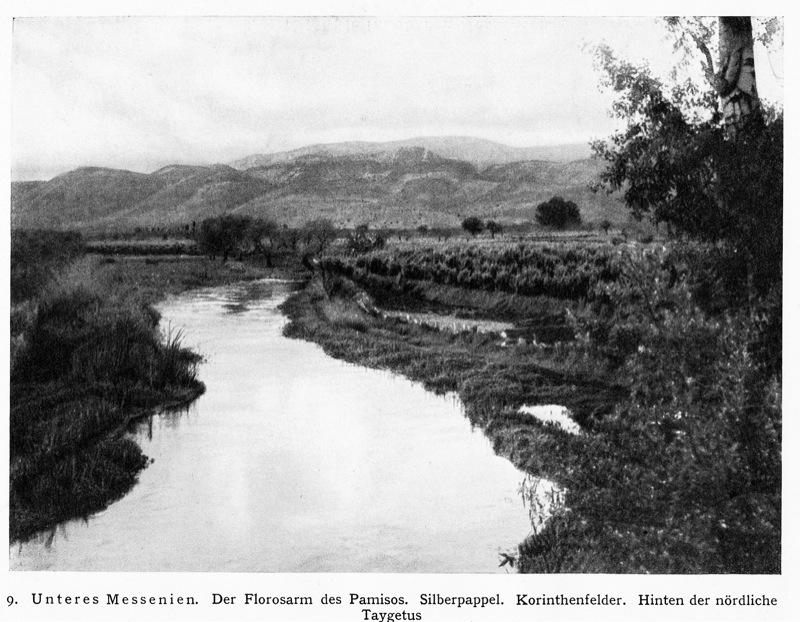 Pamisos River, (Mesenia, Greece). Photo taken in 1912.